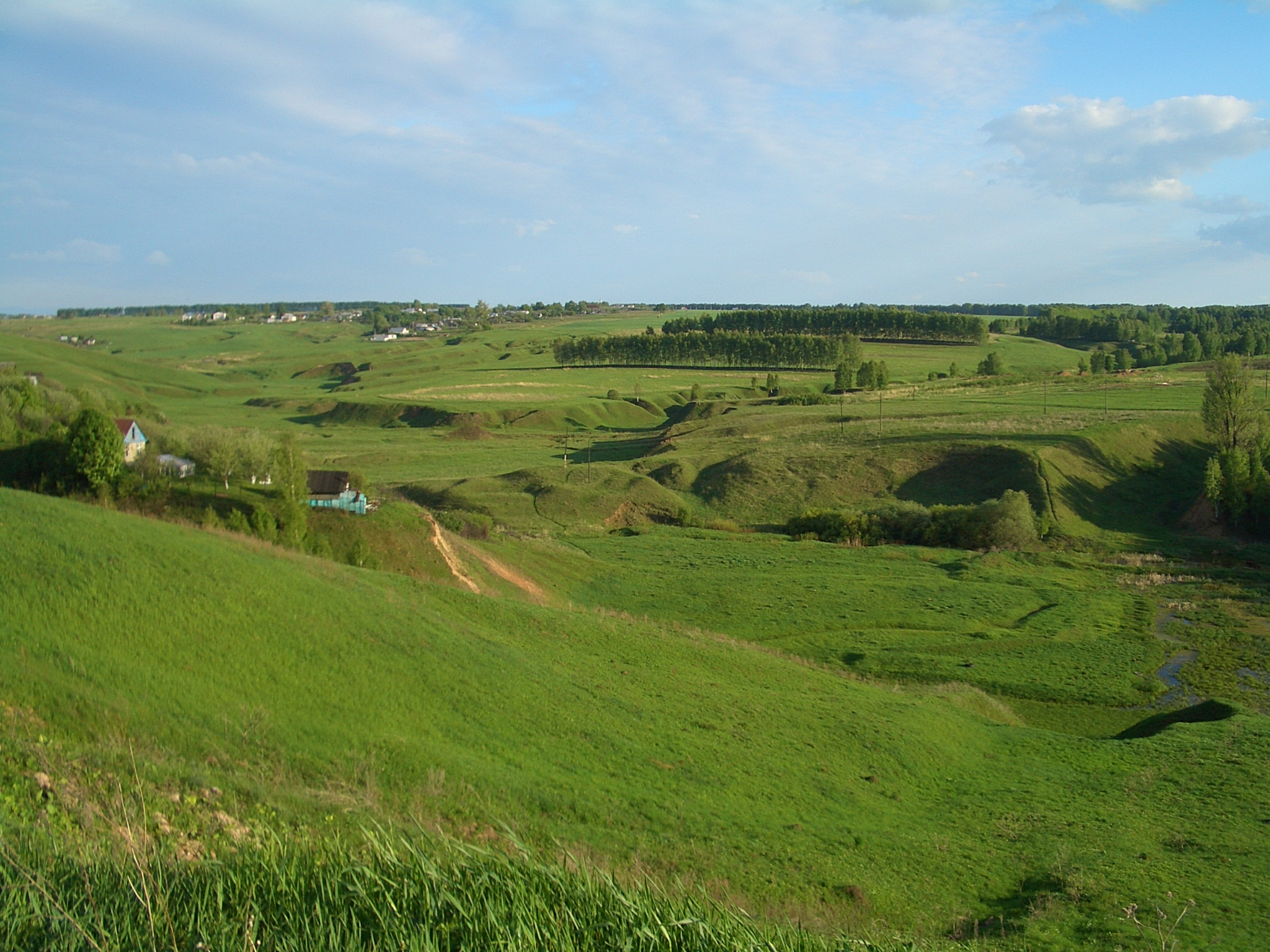 Part of the gulch from which the village of Veliky Vrag (Great Gulch) got its name. (Nizhny Novgorod Oblast